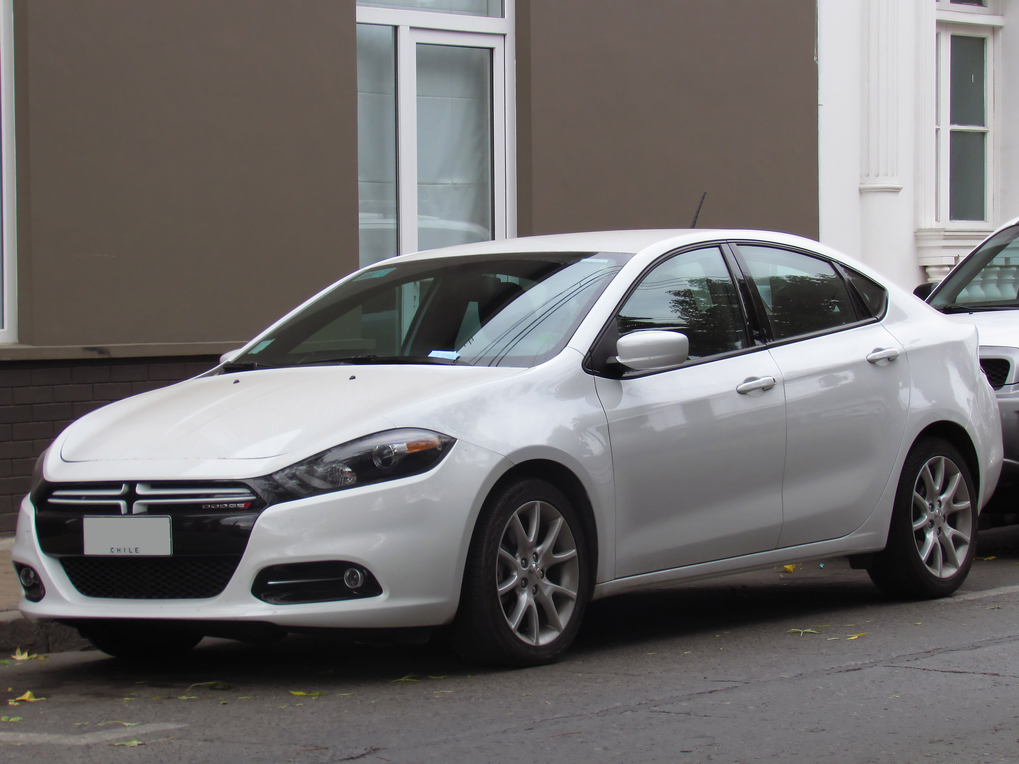 Dodge Dart 2.0 Rallye 2014